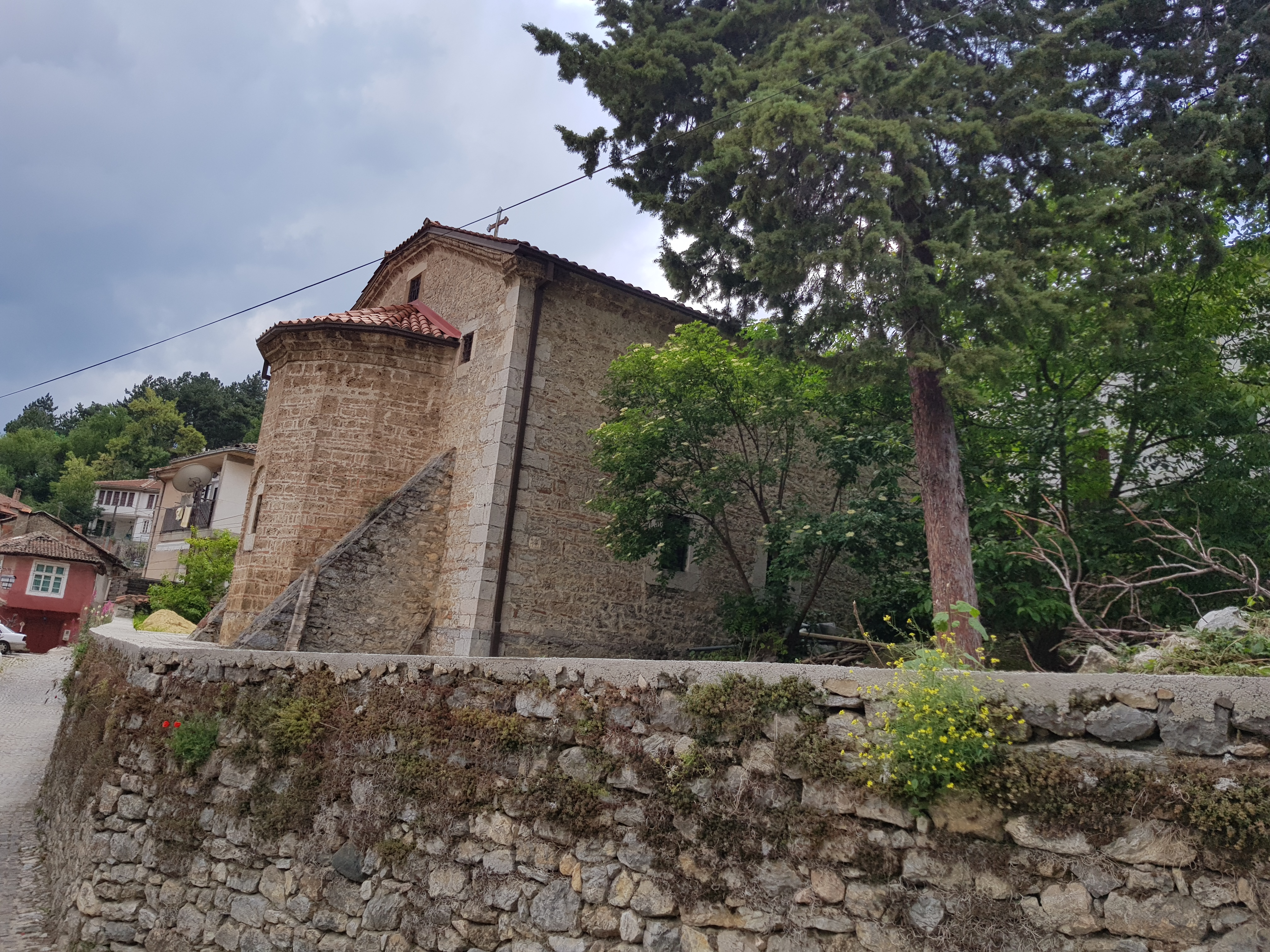 Ss. Cosmas and Damian Church (Golemi Vrači, Ohrid), Macedonia